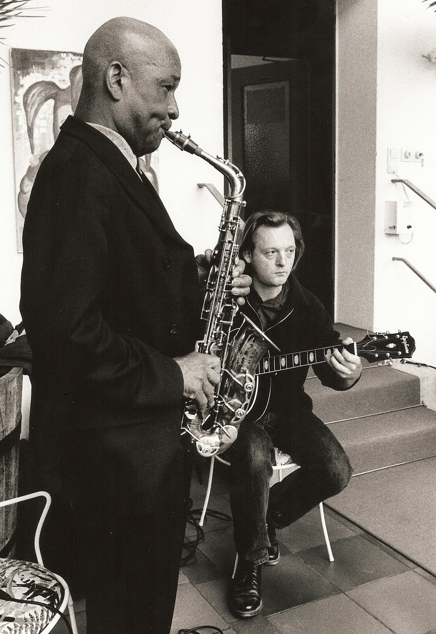 The saxophonist Monty Waters and the guitarist Titus Waldenfels in concert, Munich 1999